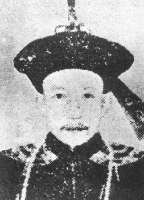 Heshen